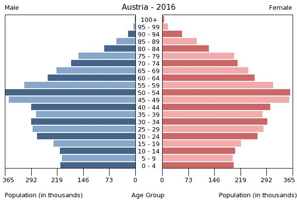 The population pyramid of Austria illustrates the age and sex structure of population and may provide insights about political and social stability, as well as economic development. The population is distributed along the horizontal axis, with males shown on the left and females on the right. The male and female populations are broken down into 5-year age groups represented as horizontal bars along the vertical axis, with the youngest age groups at the bottom and the oldest at the top. The shape of the population pyramid gradually evolves over time based on fertility, mortality, and international migration trends.